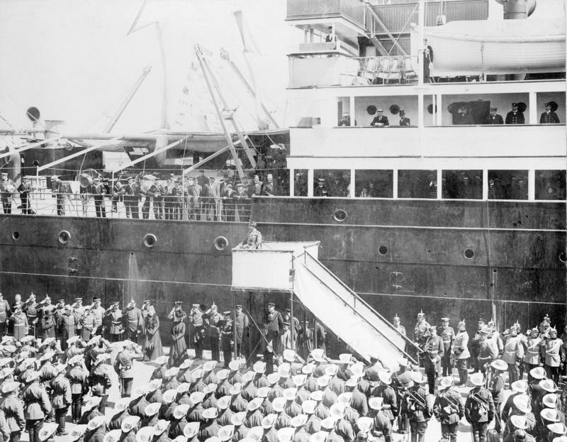 Information added by Wikimedia users.Fotograf vermutlich Louis Koch, Bremen